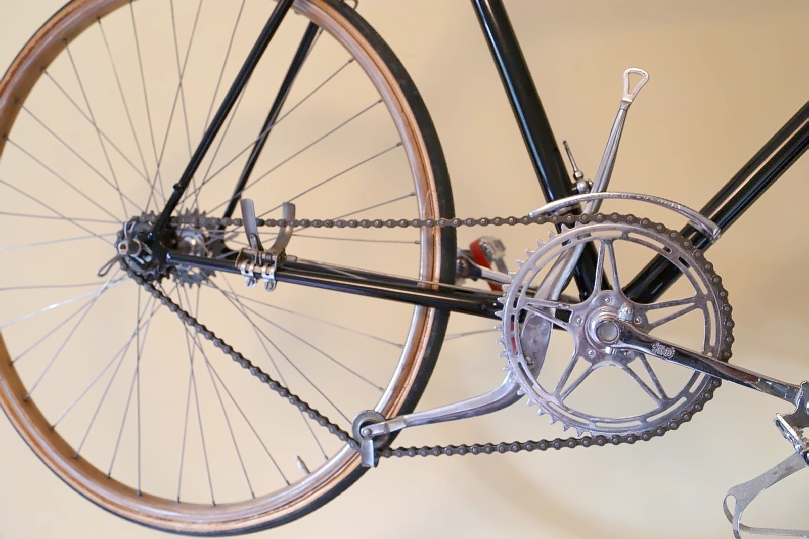 Vittoria Margherita bicycle gearbox